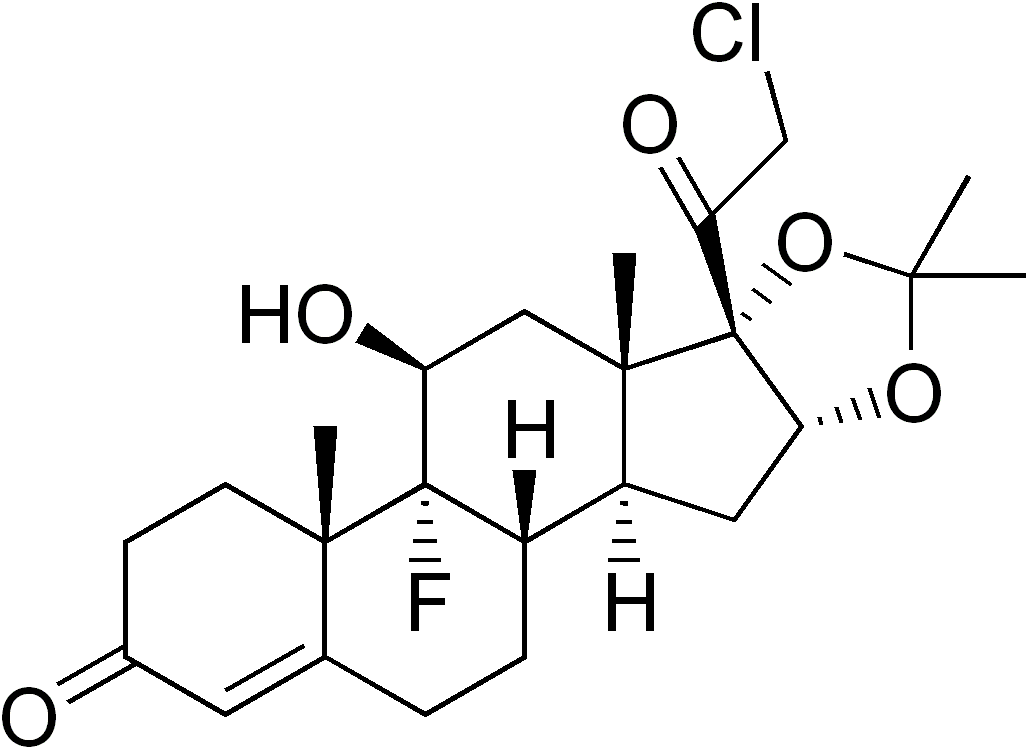 chemical structure of halcinonide